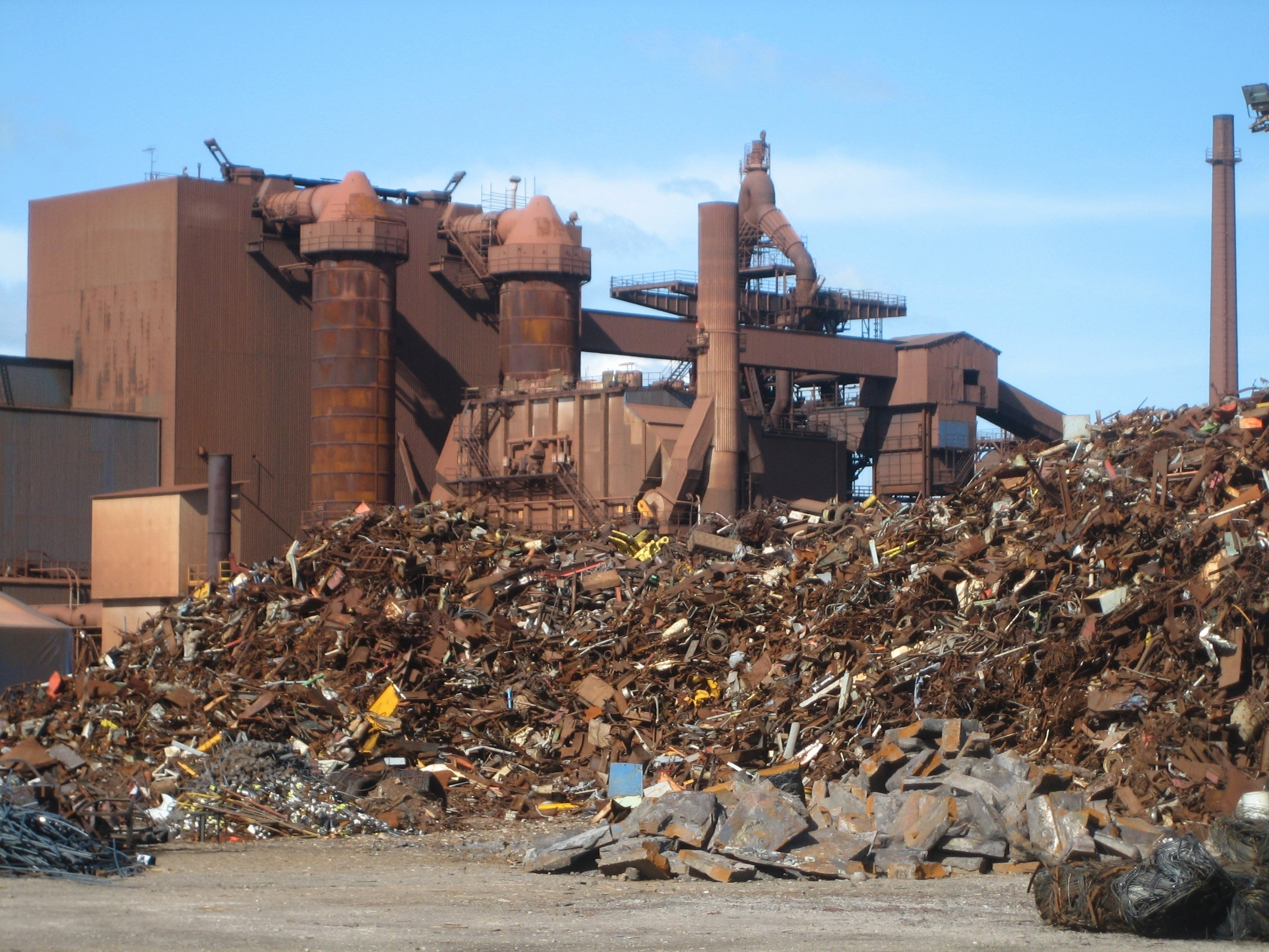 The scrapyards of a steel mill in Koverhar, Finland. Behind trhe scraps, we can distinguish a blast furnace.